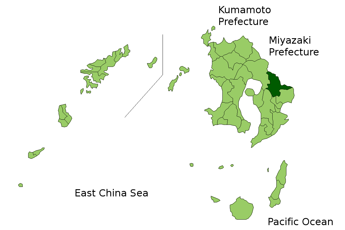 Location Map of Soo in Kagoshima Prefecture, Japan